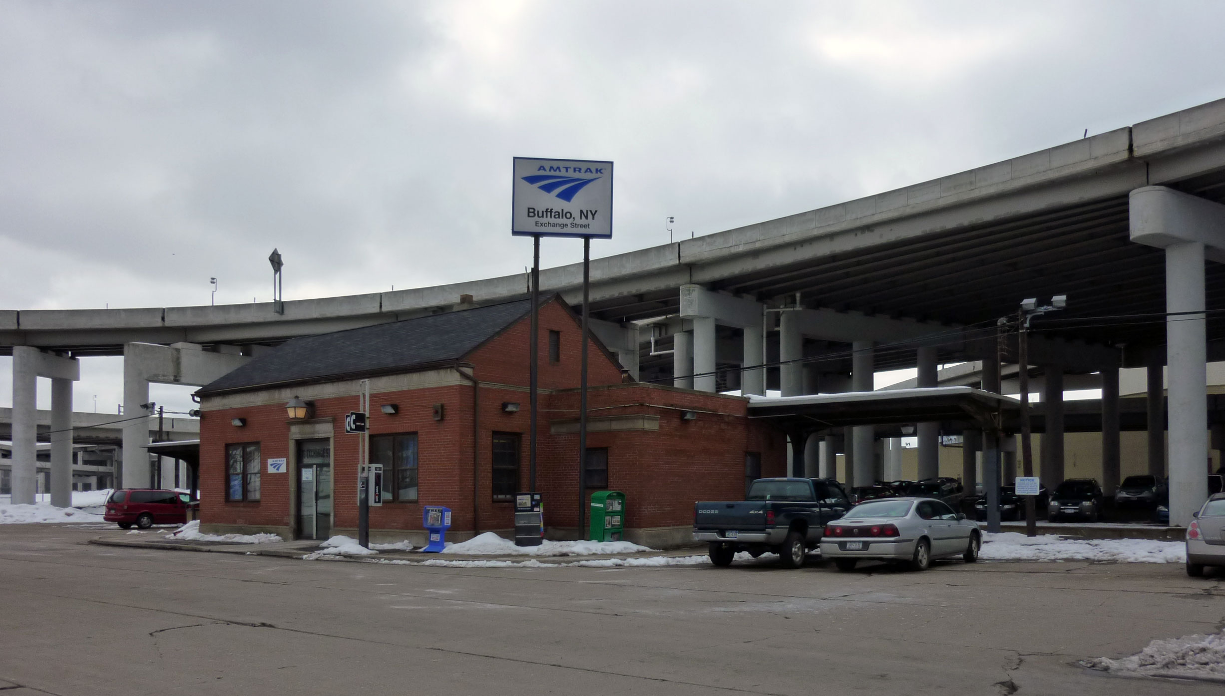 Buffalo's secondary, downtown train station, overshadowed by I-190. Buffalo NY Exchange Street Amtrak station